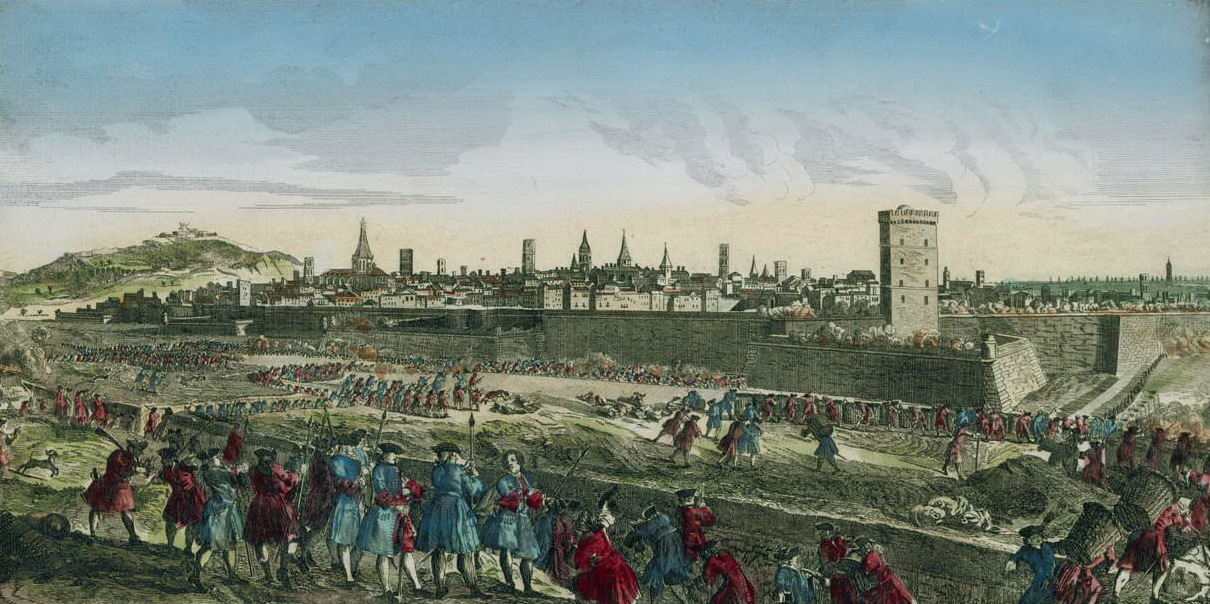 View of Maastricht, the Netherlands, showing the attaques of the army of Louis XV of France on the city in 1748 during the War of the Austrian Succession. Print in the collection of the Bibliothèque nationale de France in Paris.